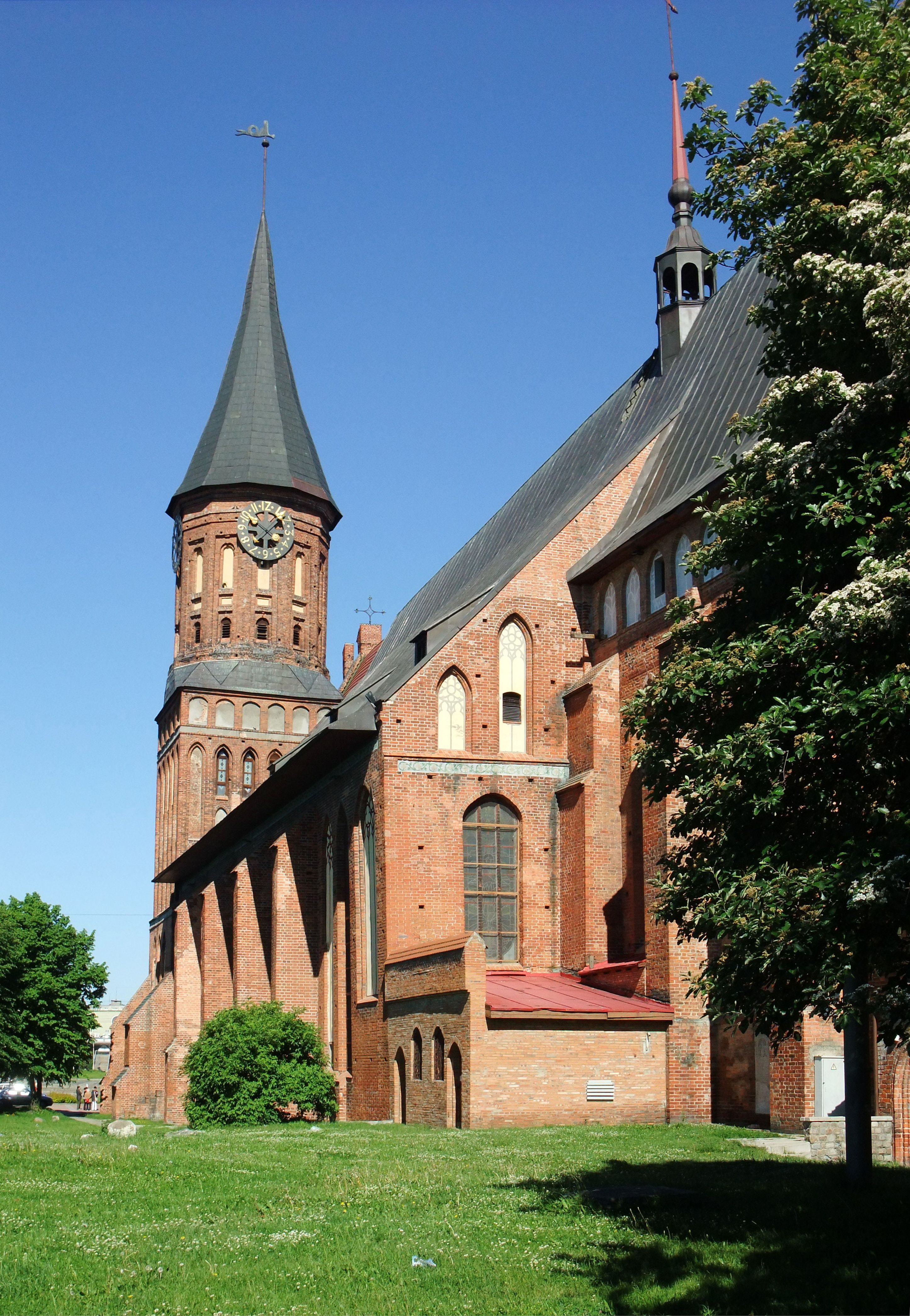 Old cathedral of Kaliningrad, Russia